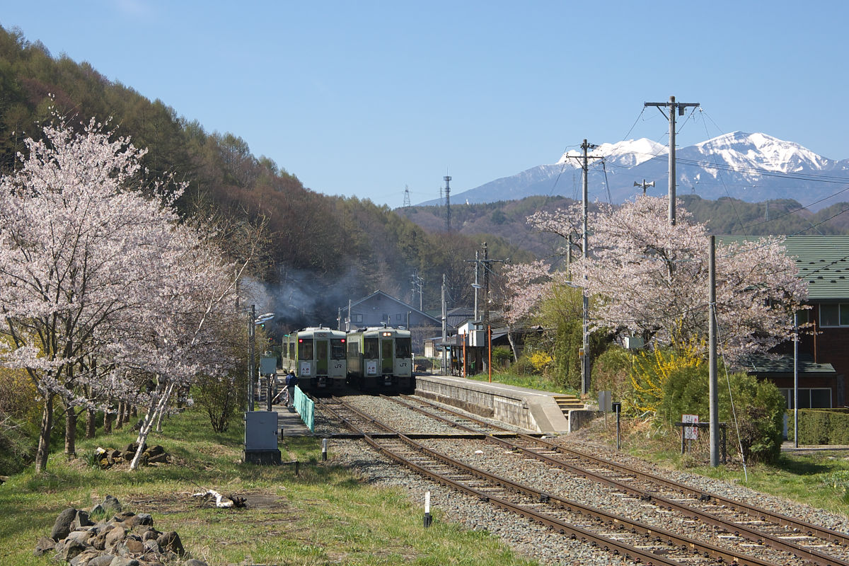 JR East Koumi Line Yachiho Station, with the Mount Yatsu (Yatsugatake) in the background